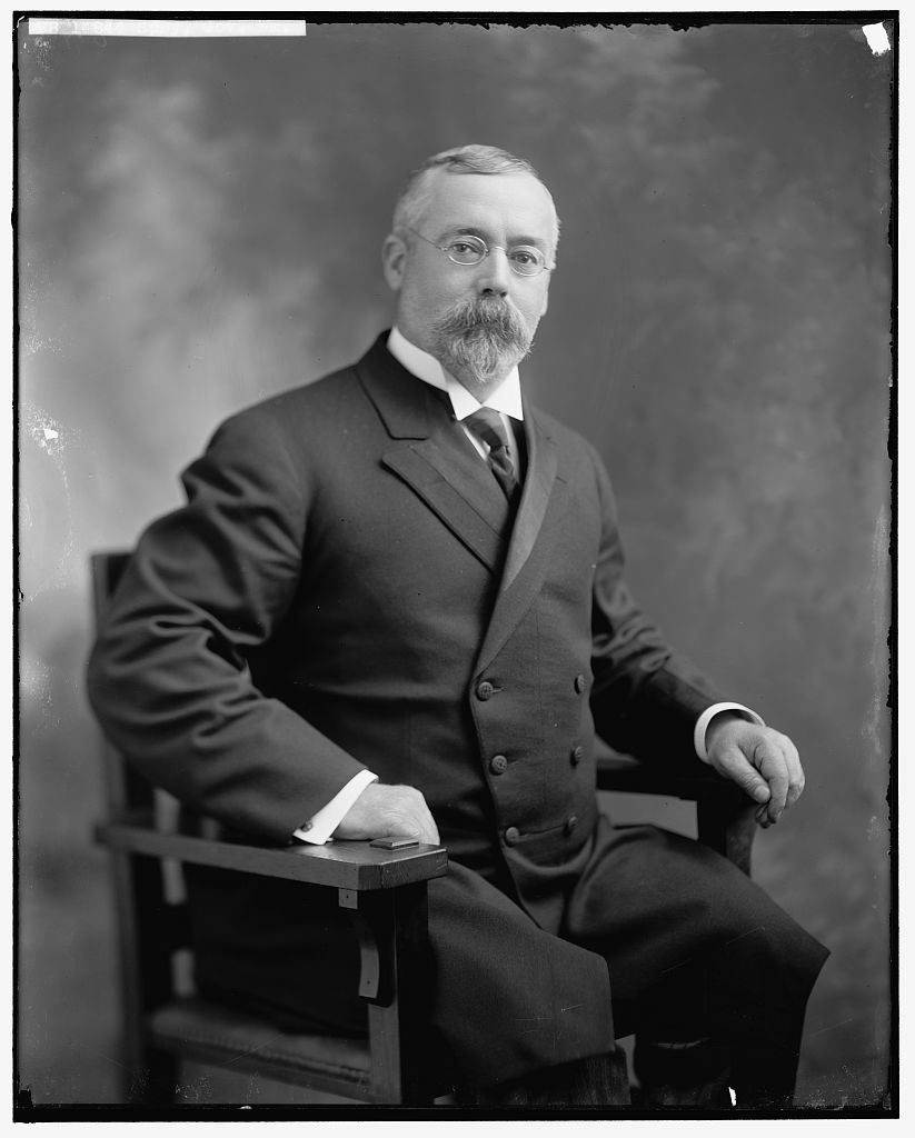 William Spry, Governor of Utah from 1909 to 1917